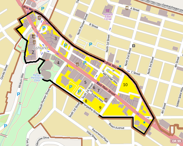 Map showing the boundaries of the Ashland Downtown Historic District in Ashland, Oregon, United States. The historic district is listed on the US National Register of Historic Places. Boundary data is derived from: City of Ashland (December 16, 2008) (PDF). Historic Districts (Map). Black boundary/yellow area: Ashland Downtown Historic District boundaries. Brown boundary/tan area: Boundaries of the nearby Ashland Railroad Addition Historic District (top and right), Siskiyou-Hargadine Historic District (bottom), and Skidmore Academy Historic District (left). Numbers: Represent the locations of contributing resources in the historic district that are also listed individually on the National Register: IOOF Building Ashland Masonic Lodge Building Whittle Garage Building First National Bank, Vaupel Store and Oregon Hotel Buildings Lithia Springs Hotel Citizen's Banking and Trust Co. Building Enders Building First Baptist Church Fordyce Roper House – Southern Oregon Hospital Trinity Episcopal Church Note: Depiction of building outlines on this map is not comprehensive; numerous buildings exist that are not marked on this map, including numbers 8, 9, and 10 above.